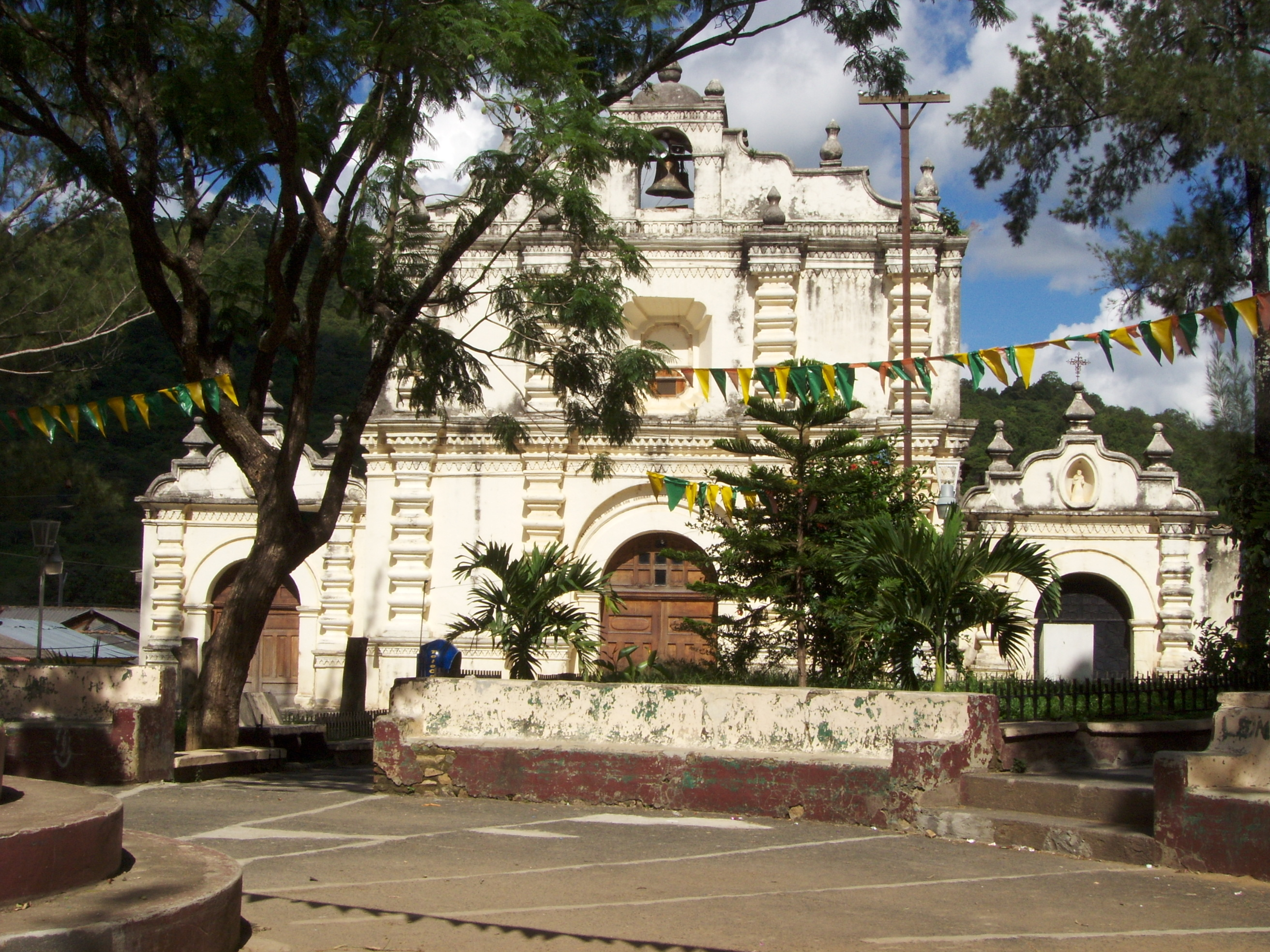 Cathedral, Sabanagrande, municipality in the Honduran department of Francisco Morazán.